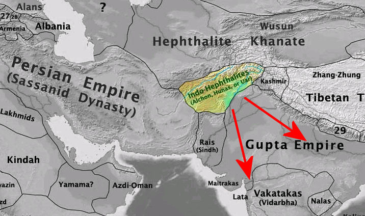 Map of the Alkhon Huns and conquests